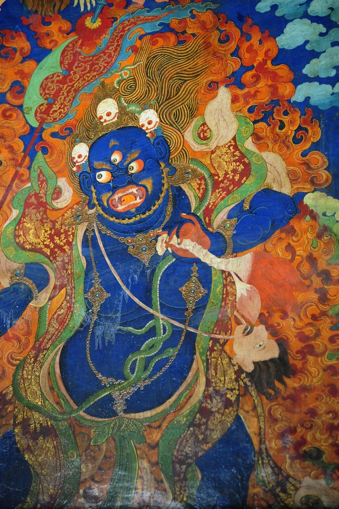 Mural of Shenpa Nakpo (Tib. Bshan pa nag po), one of two door guardians surrounding the main entrance to Nechung Monastery.